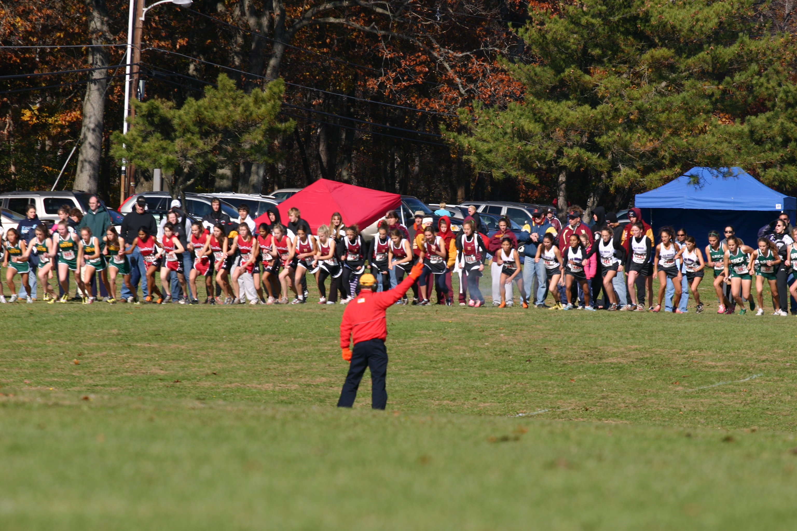 Author:ME